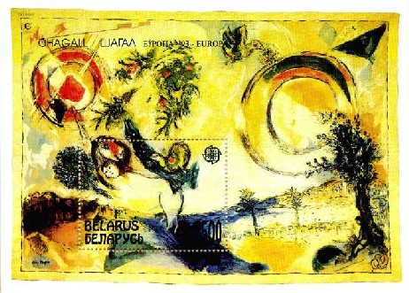 Stamp of Belarus